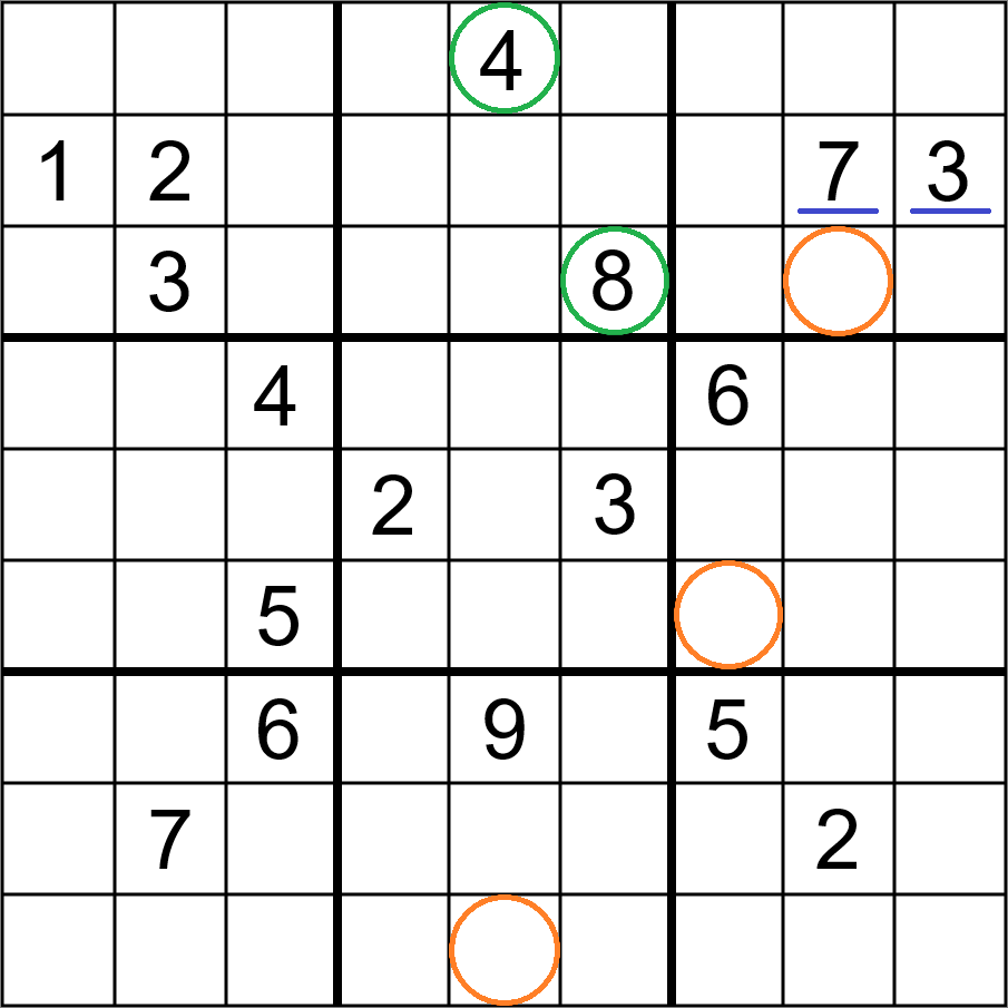 A 17 clue Sudoku by Rico Alan, identified as "R929-3E01", with clues hi-lited (comparing to an 18 clue Sudoku).